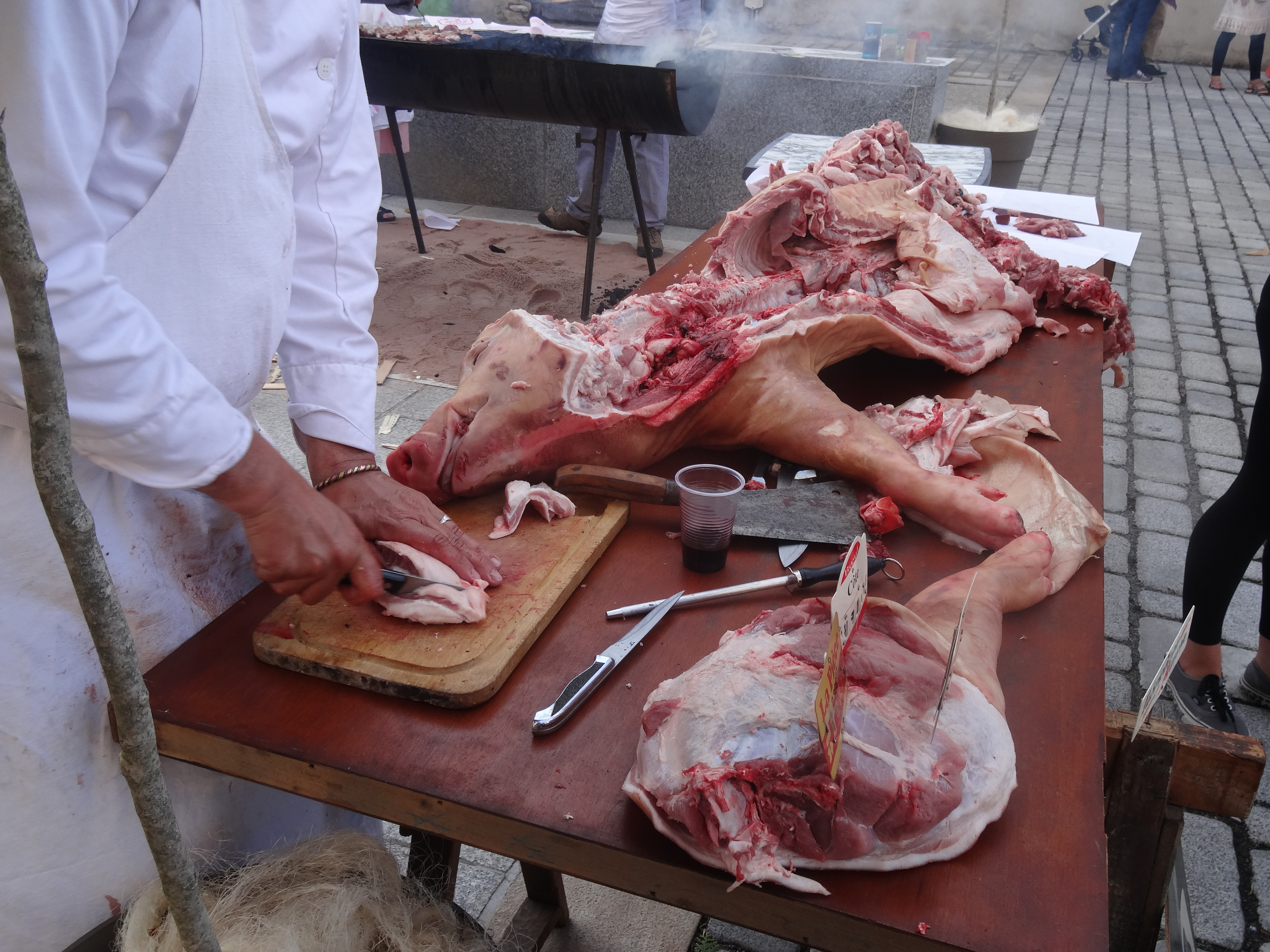 Festival in Limoges, in front on the cathedral. Butchers with a slaughtered pig